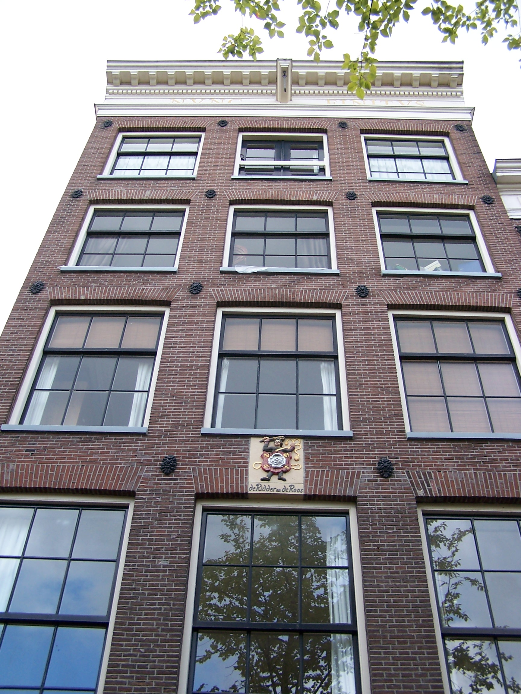 Bloemgracht 15 once owned by the anatomist Frederik Ruysch